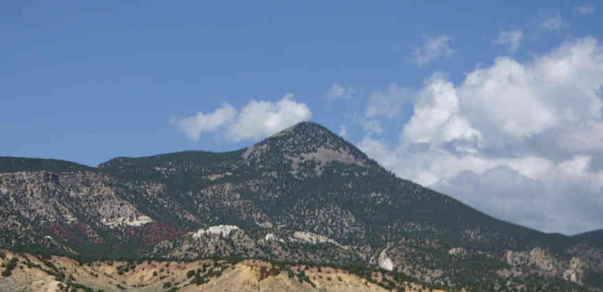 Mountain near Badito, Colorado